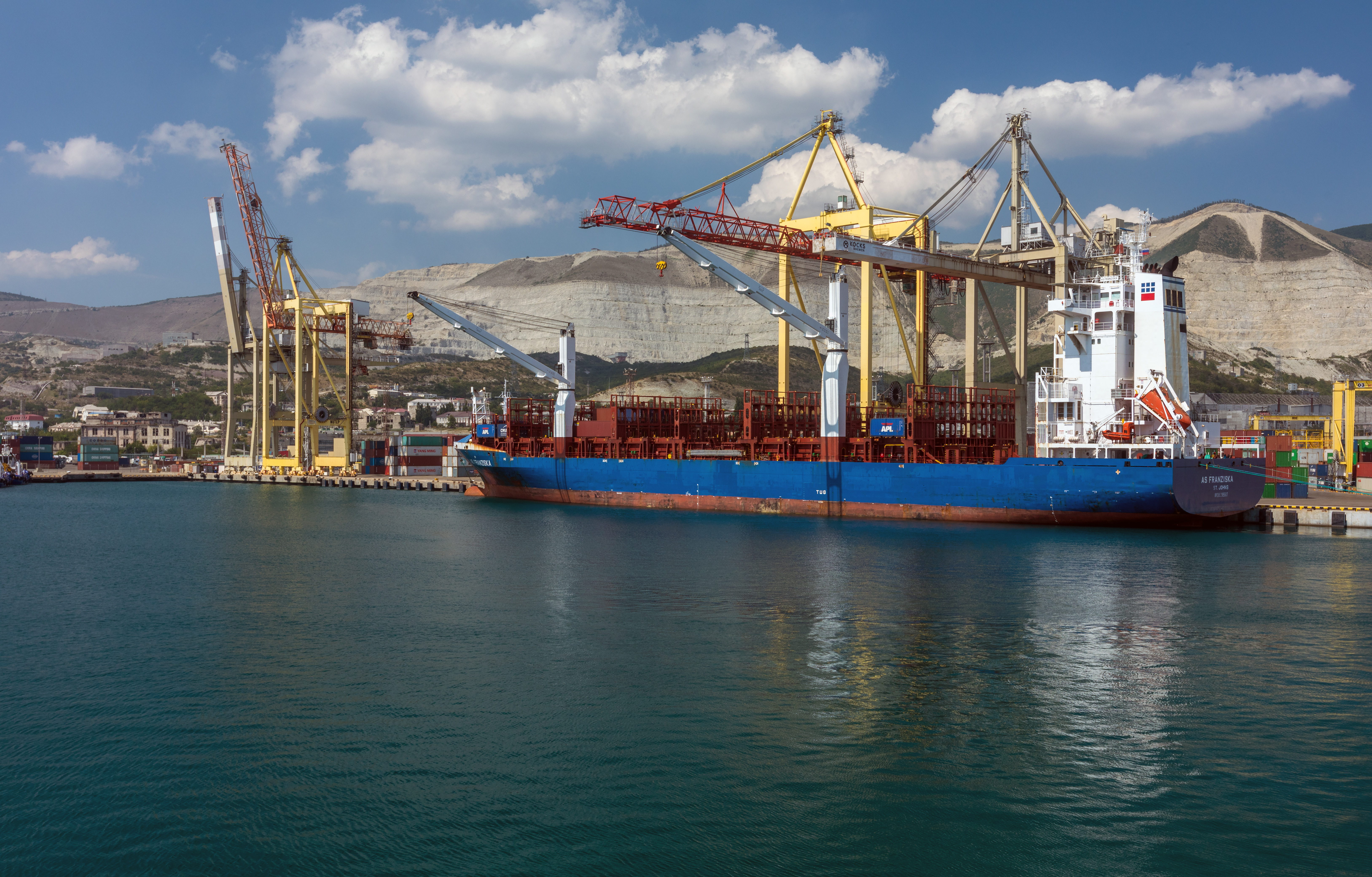 cranes and vessel at NUTEP